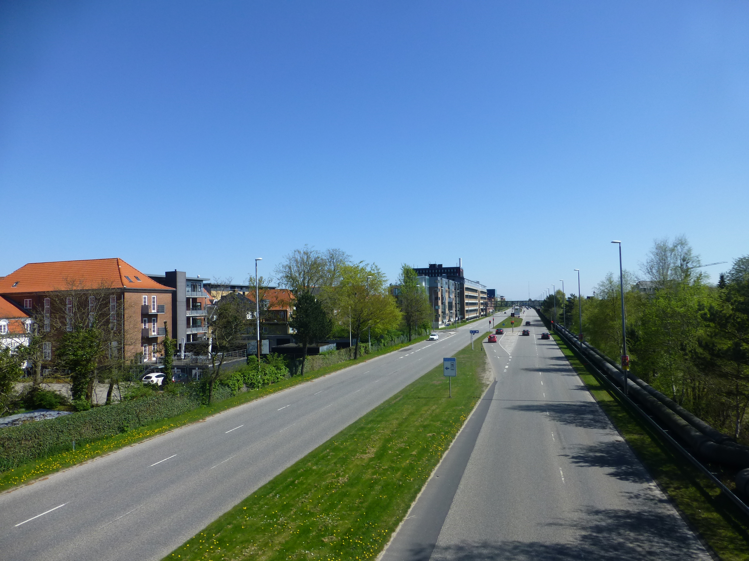 The street Dronningens Boulevard in Herning in Denmark.